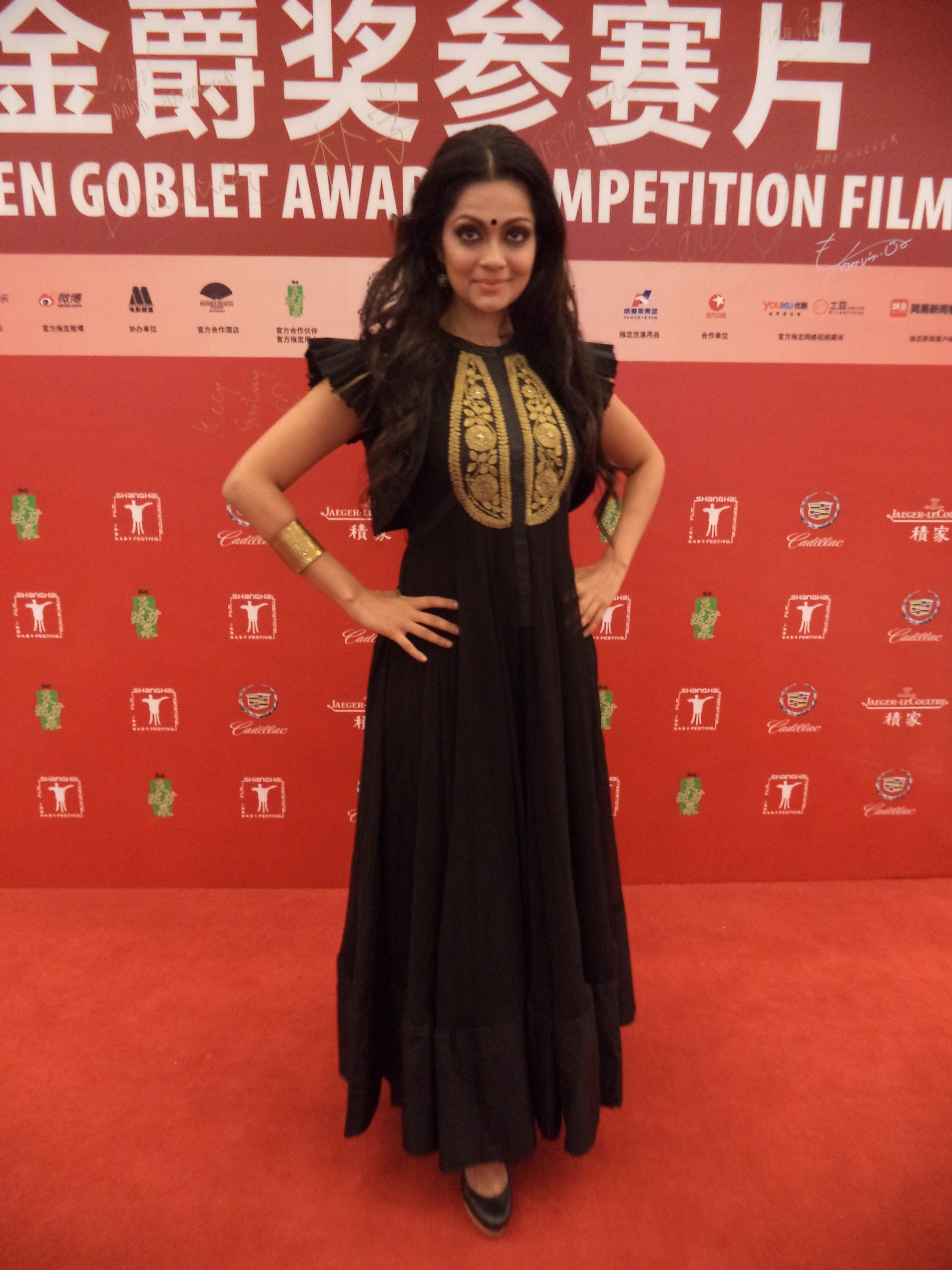 Sheena Chohan at The Shanghai International Film Festival 2014